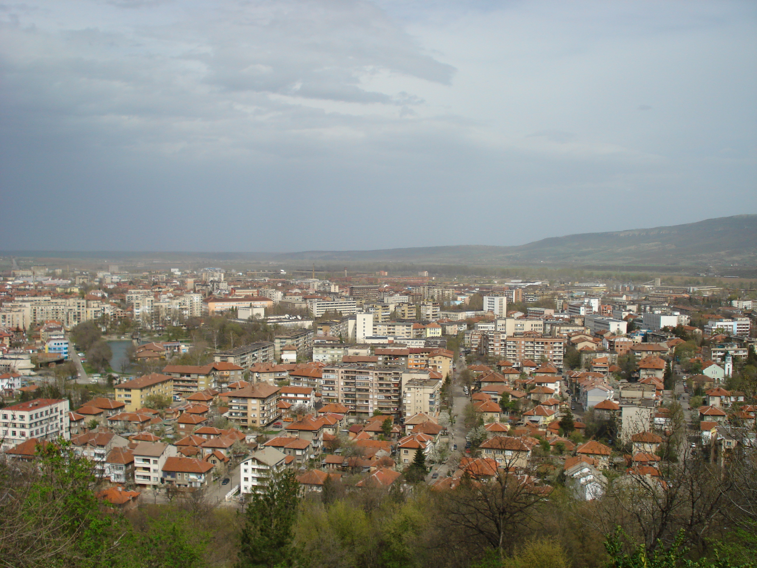 Panoramic view from Montana, Bulgaria